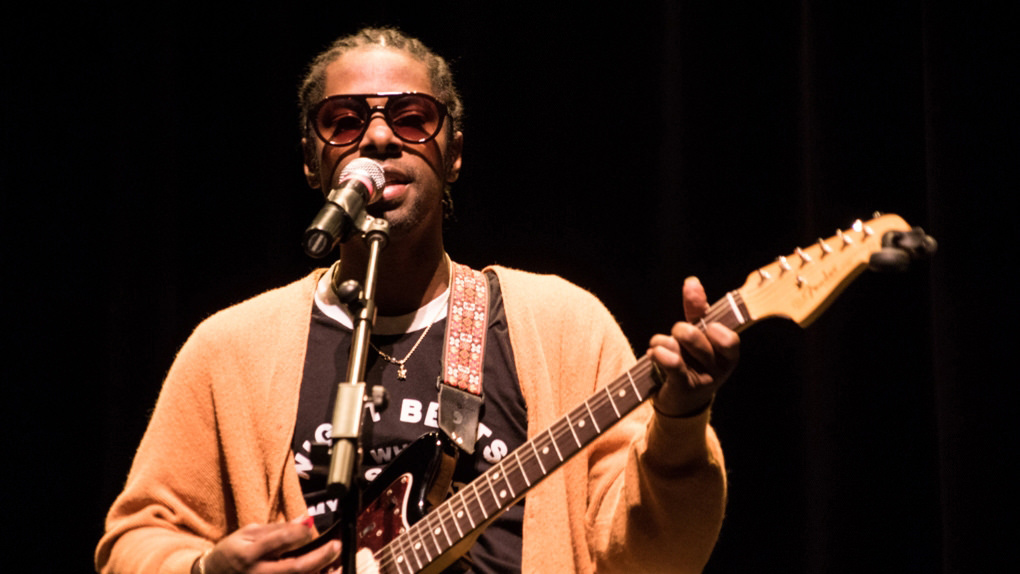 Curtis Harding at the Adler Theater, Davenport, IA for Daytrotter Downs and the Daytrotter 10th Anniversary Celebration 2/18/16